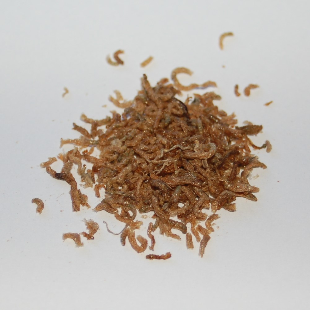 freeze dried red mosquito larvae